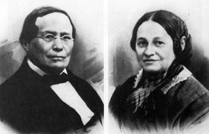 Johann Georg Meyer and his wife Henriette Magdalene